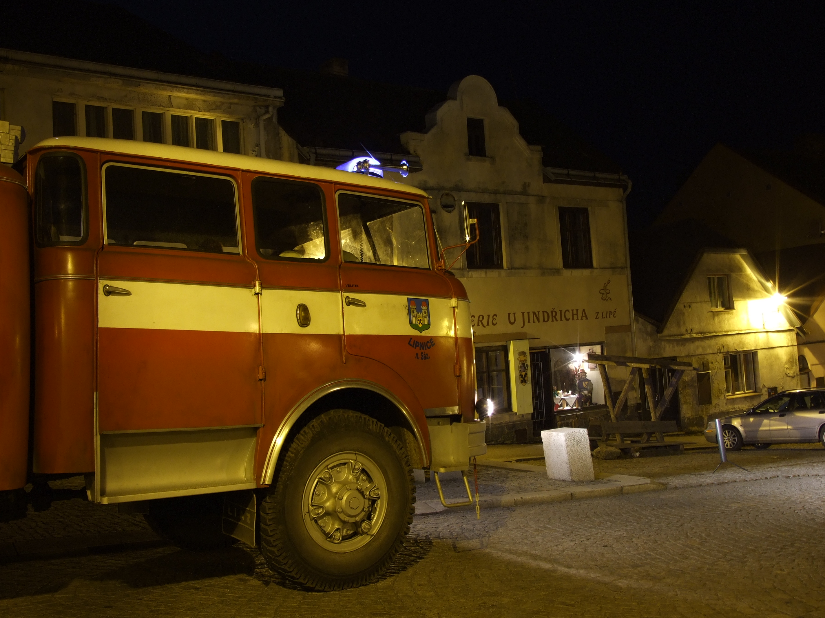 Firefighter's truck in Lipnice nad Sázavou, Vysočina Region